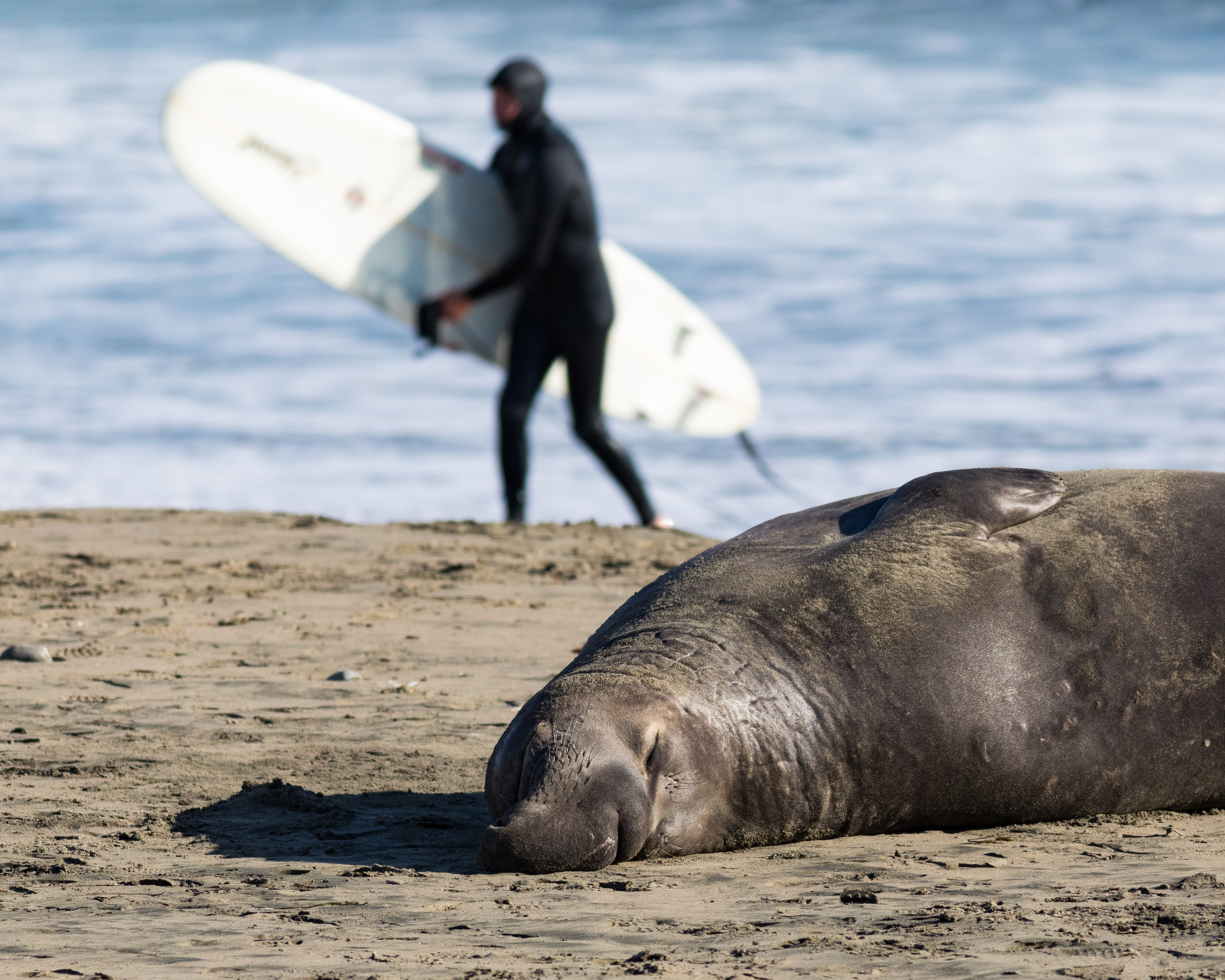 A surfer and a resting male Northern elephant seal (Mirounga angustirostris) at Drakes Beach in Point Reyes National Seashore, Marin County, California